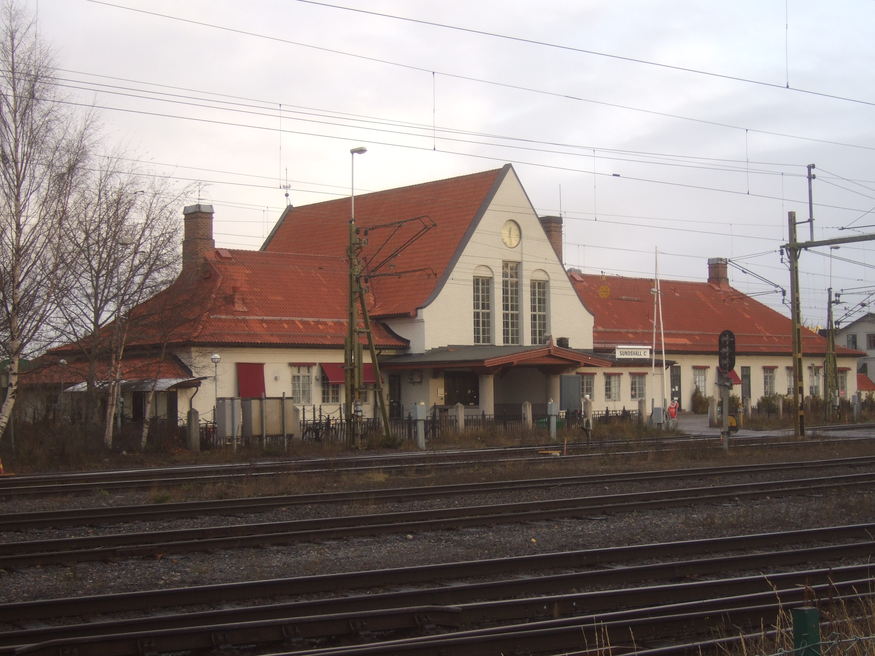 The station building of "Sundsvalls centralstation" at Landsvägsallén 6 in Sundsvall, viewed from west across train tracks